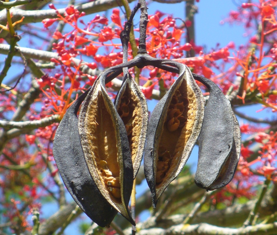 Flowers and seedpods of the Illawarra flame tree (Brachychiton acerifolius) in Cape Town, Western Cape, South Africa. The tree is native to Australia, but is grown worldwide as an ornamental.